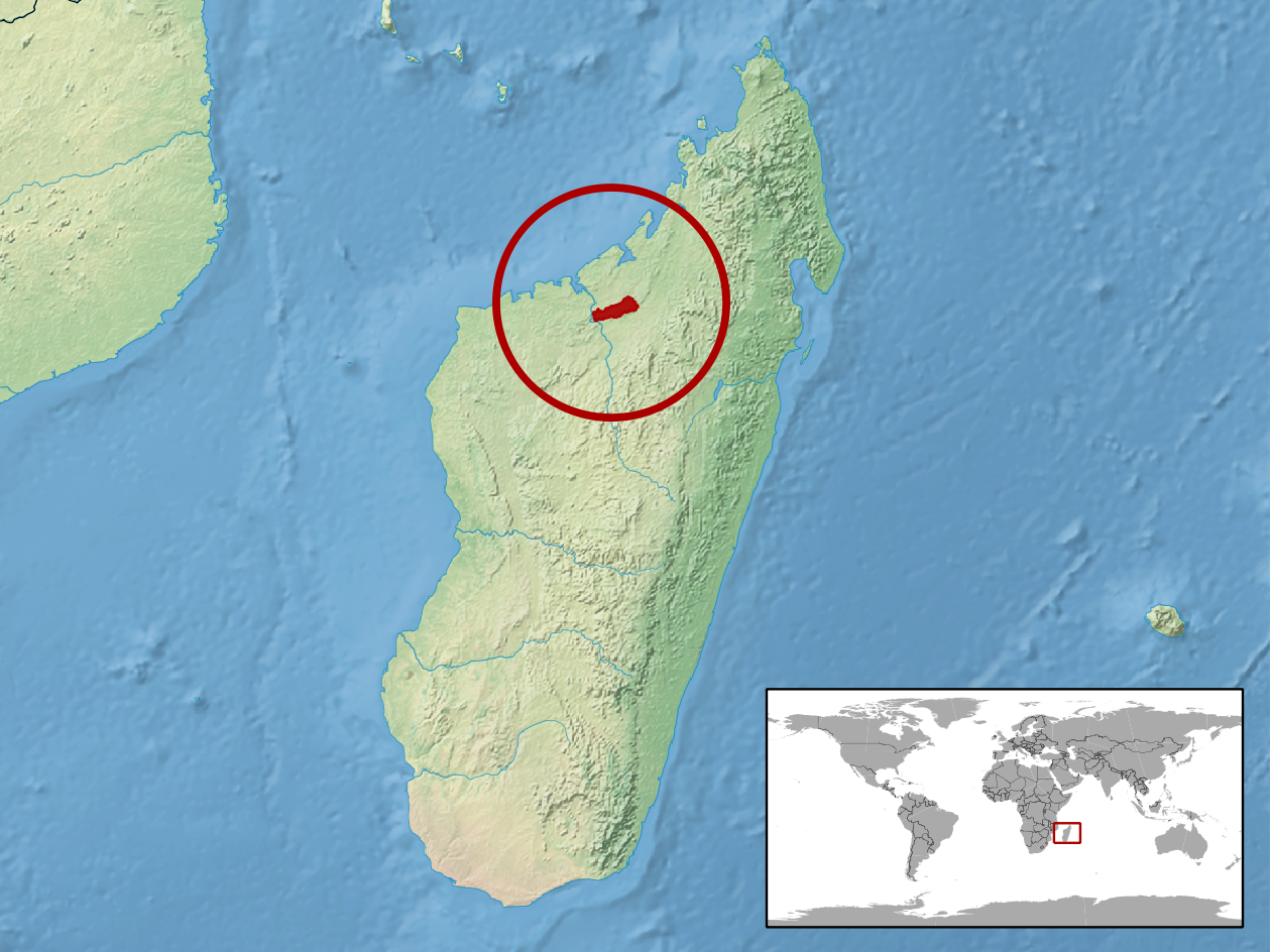 geographic distribution of Pygomeles petteri